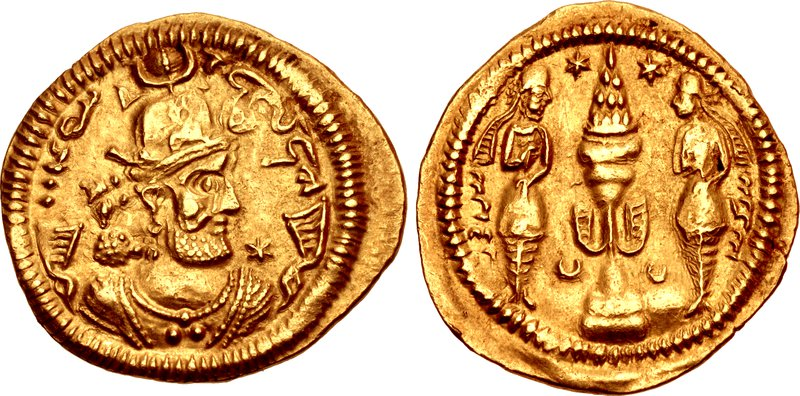 Coin of Bahram Chobin, minted in 590 at Susa.